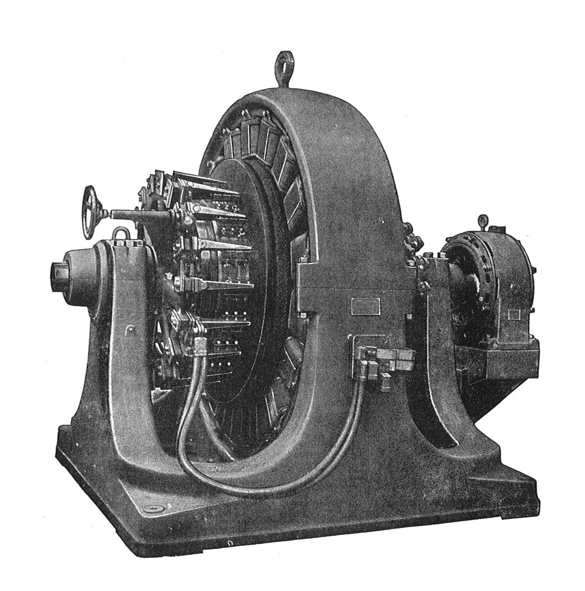 500kW Westinghouse rotary converter (Rankin Kennedy, Electrical Installations, Vol II, 1909).jpg